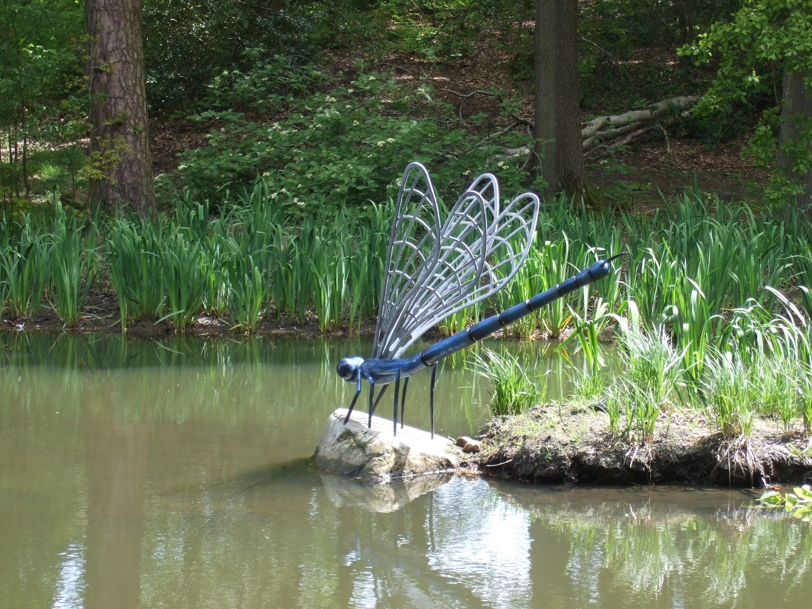 Damselfly artwork at Dedridge Pond in Livingston, West Lothian, Scotland.